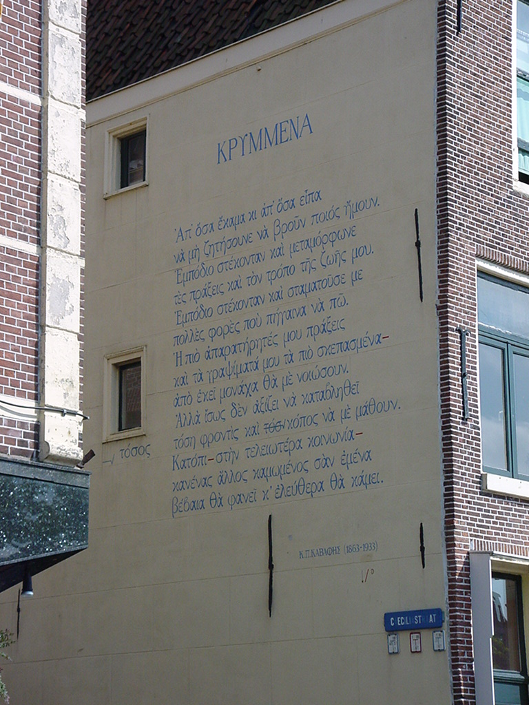 Wallpoem in the city of Leiden in the Netherlands.